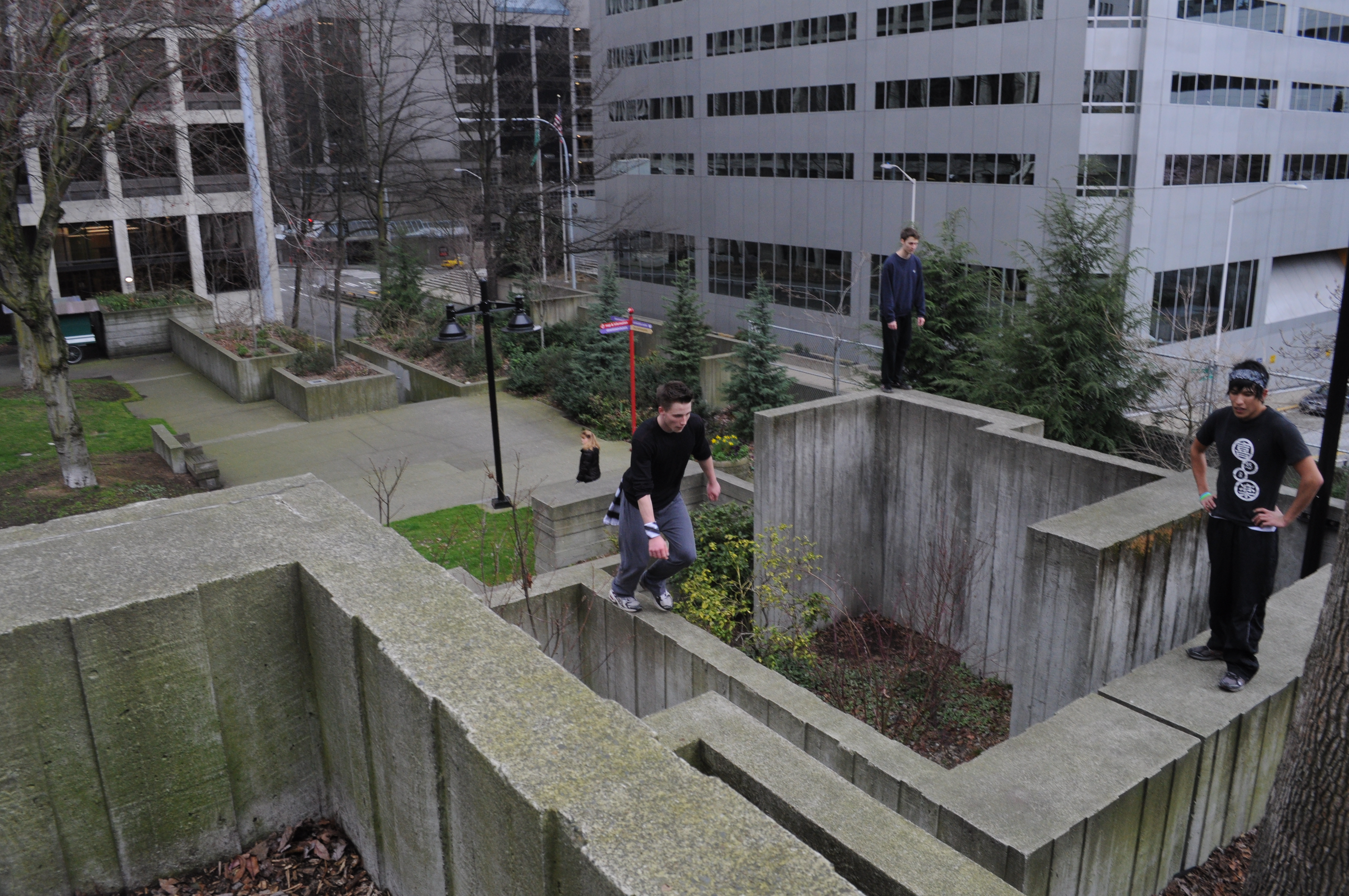 Practicing parkour in Freeway Park, Seattle, Washington. This image is part of a sequence.